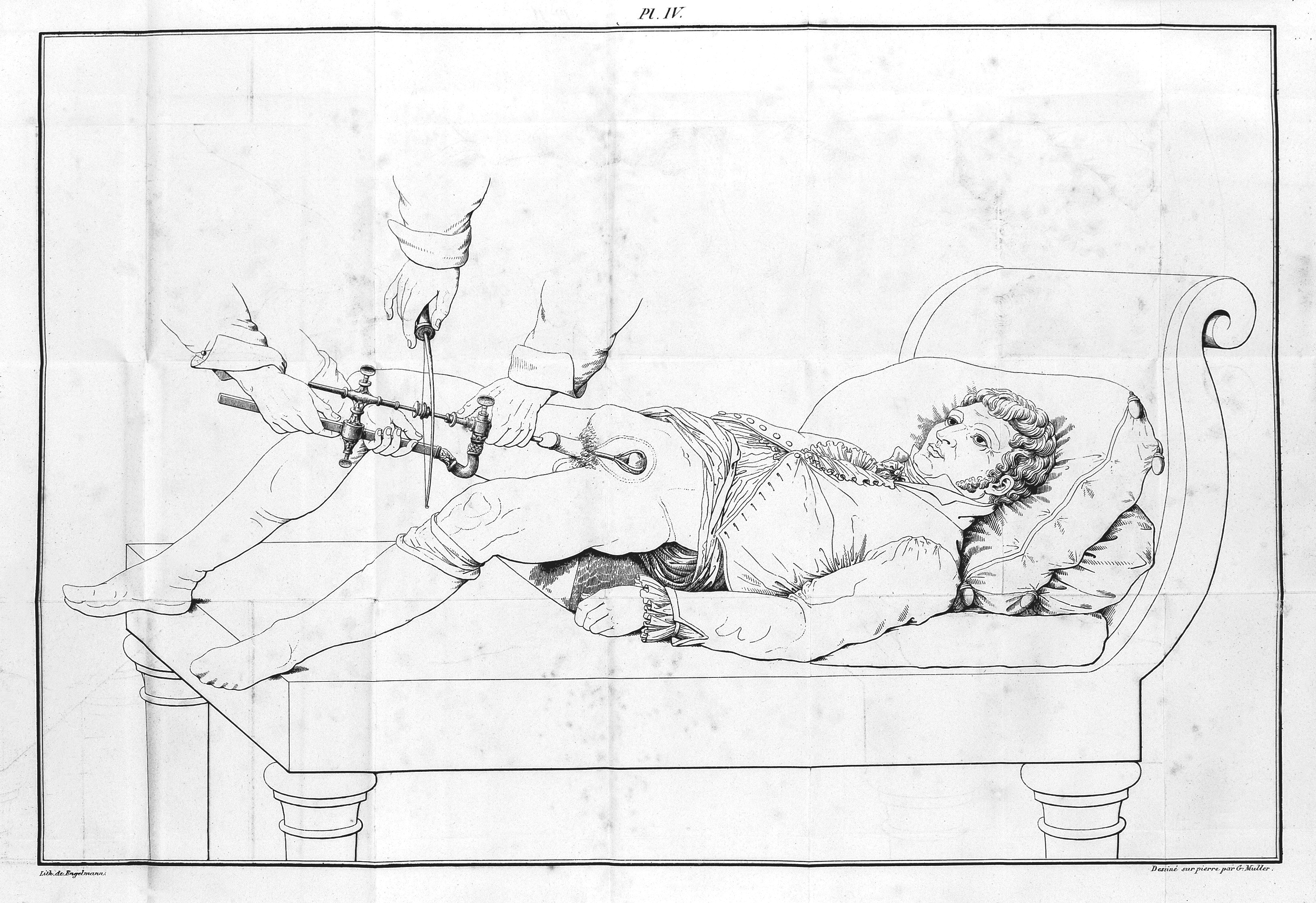 Lithotrity, 19th century. Rare Books Keywords: Jean Civiale